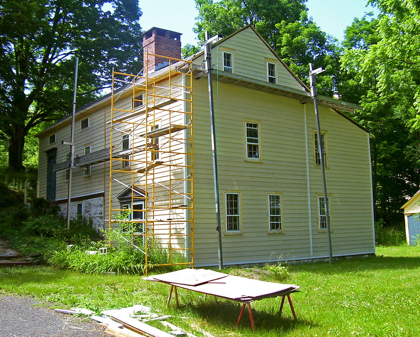 Photographed by Daniel Case 2007-06-11